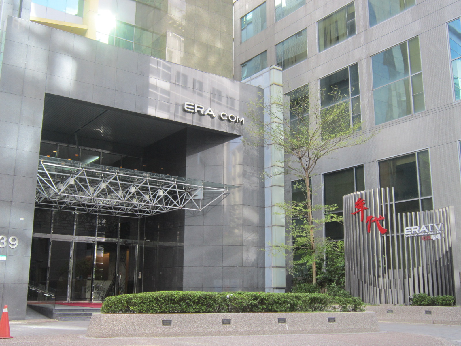 Era_Television_head_office_Neihu